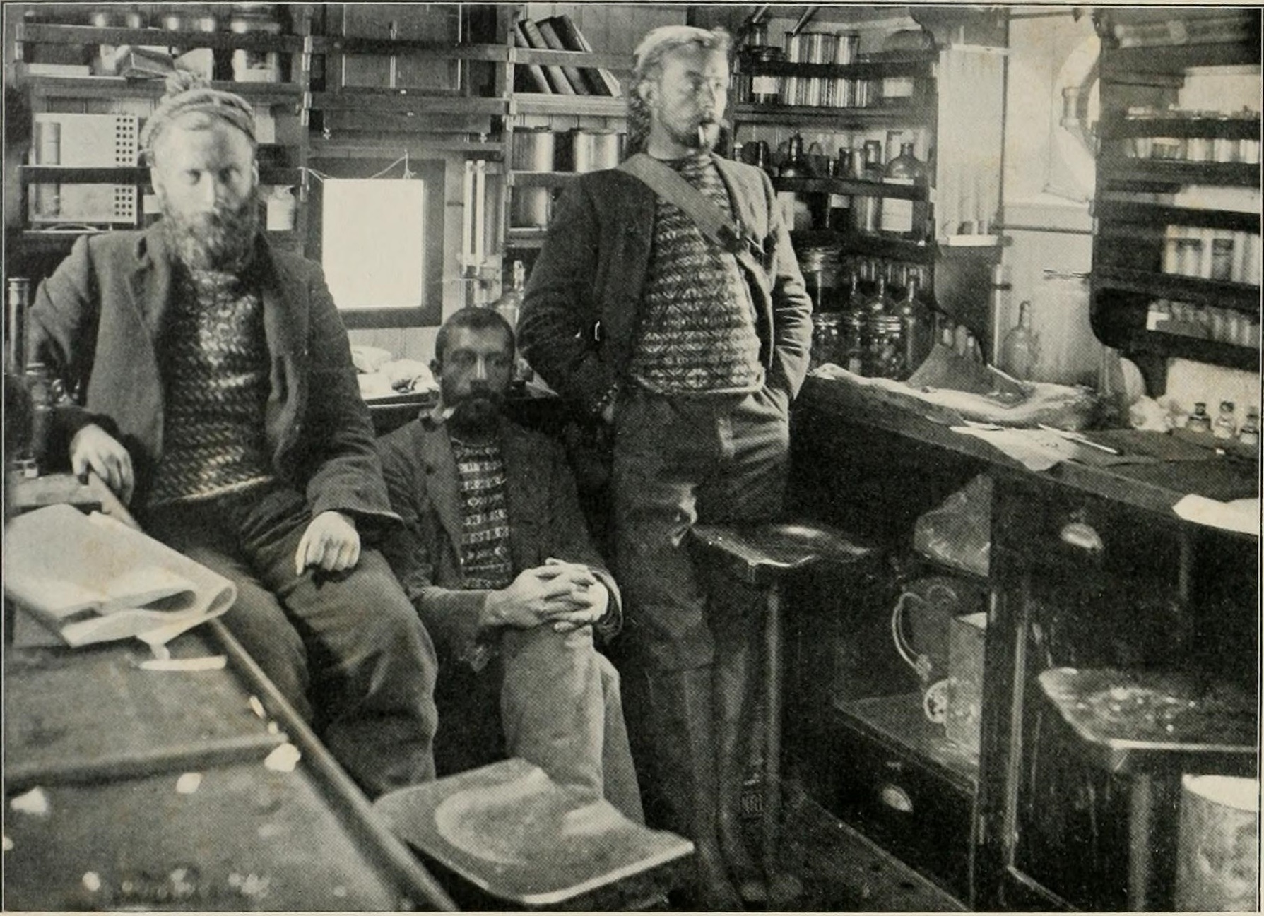 2. In medias res.; The Scotia naturalists, R. N. Rudmose Brown, David W. Wilton, and J. H. Harvey Pirie, in the Scotia deck laboratory